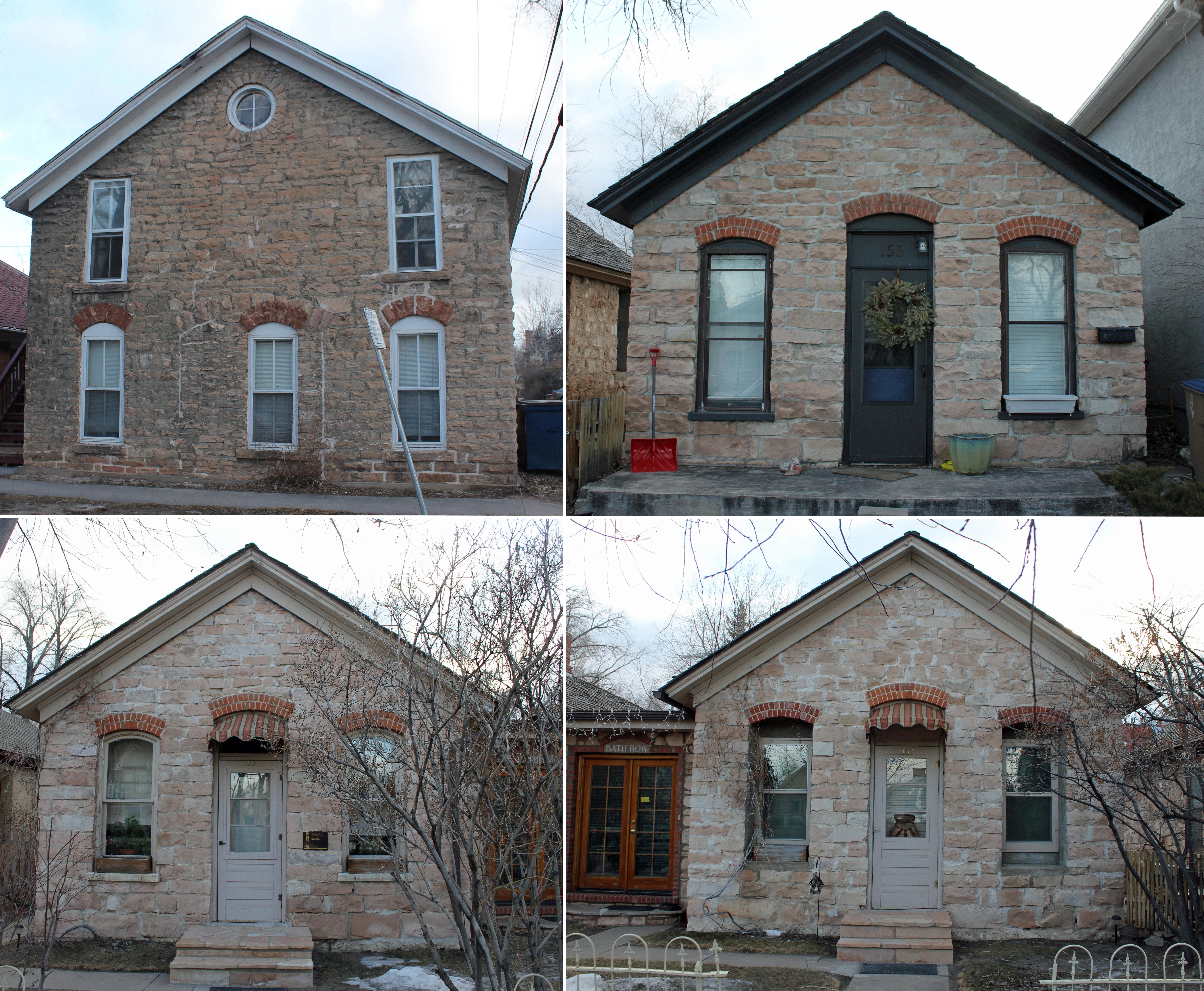 Bath Row in Laramie, Wyoming. Clockwise from the top right, the houses are located at 155, 157, and 159 North 6th Street and 611 University Avenue. The properties were rental houses built by the Bath Family in 1883 (they were not public baths). Jointly, the properties are listed on the National Register of Historic Places.